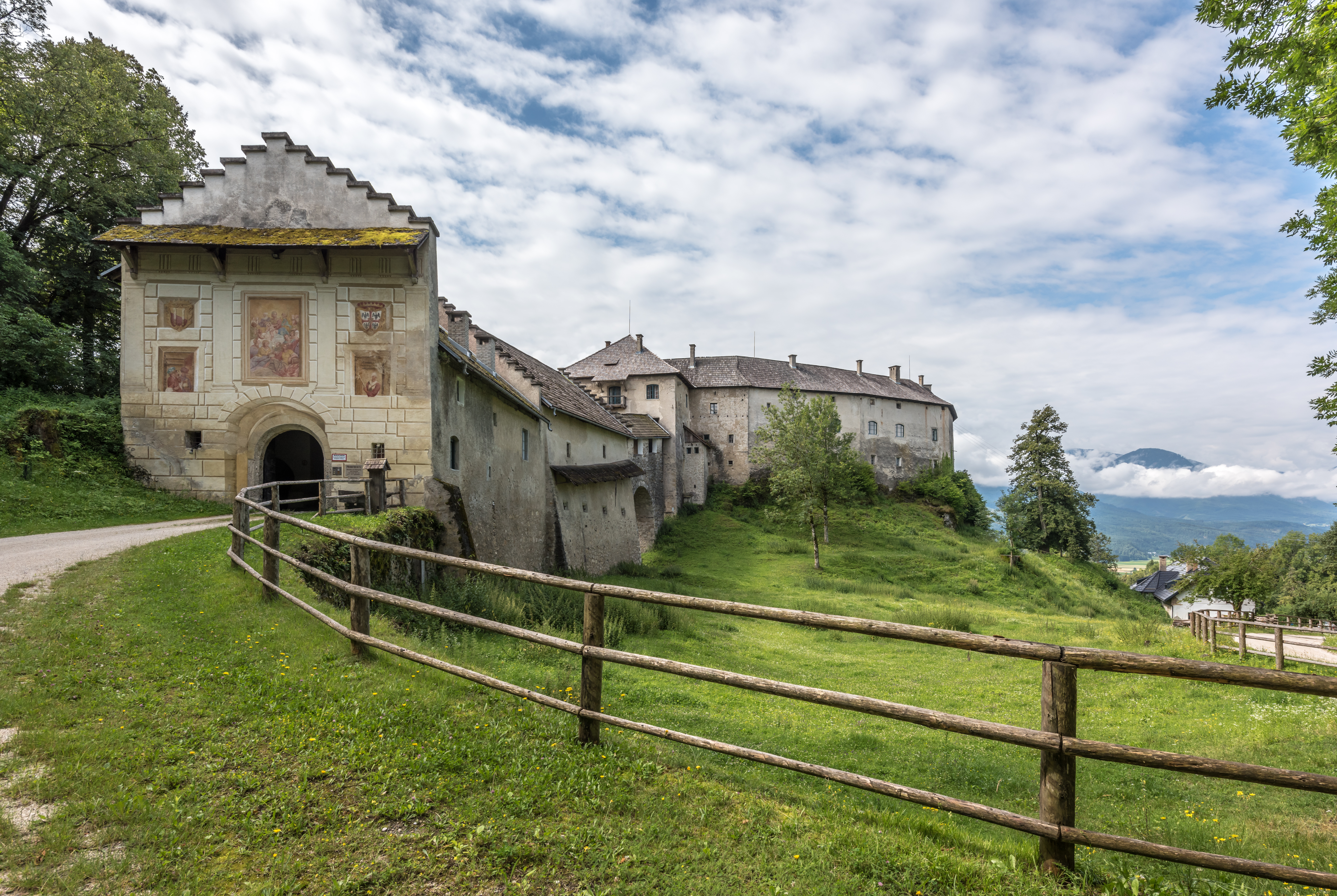 Northern view of castle Hollenburg in Hollenburg, municipality Koettmannsdorf, district Klagenfurt Land, Carinthia, Austria, European Union